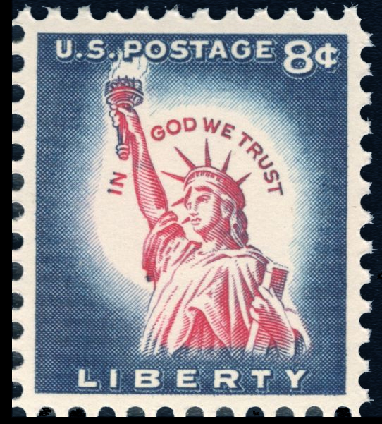 Eight-cent USPS liberty stamp issued in 1954